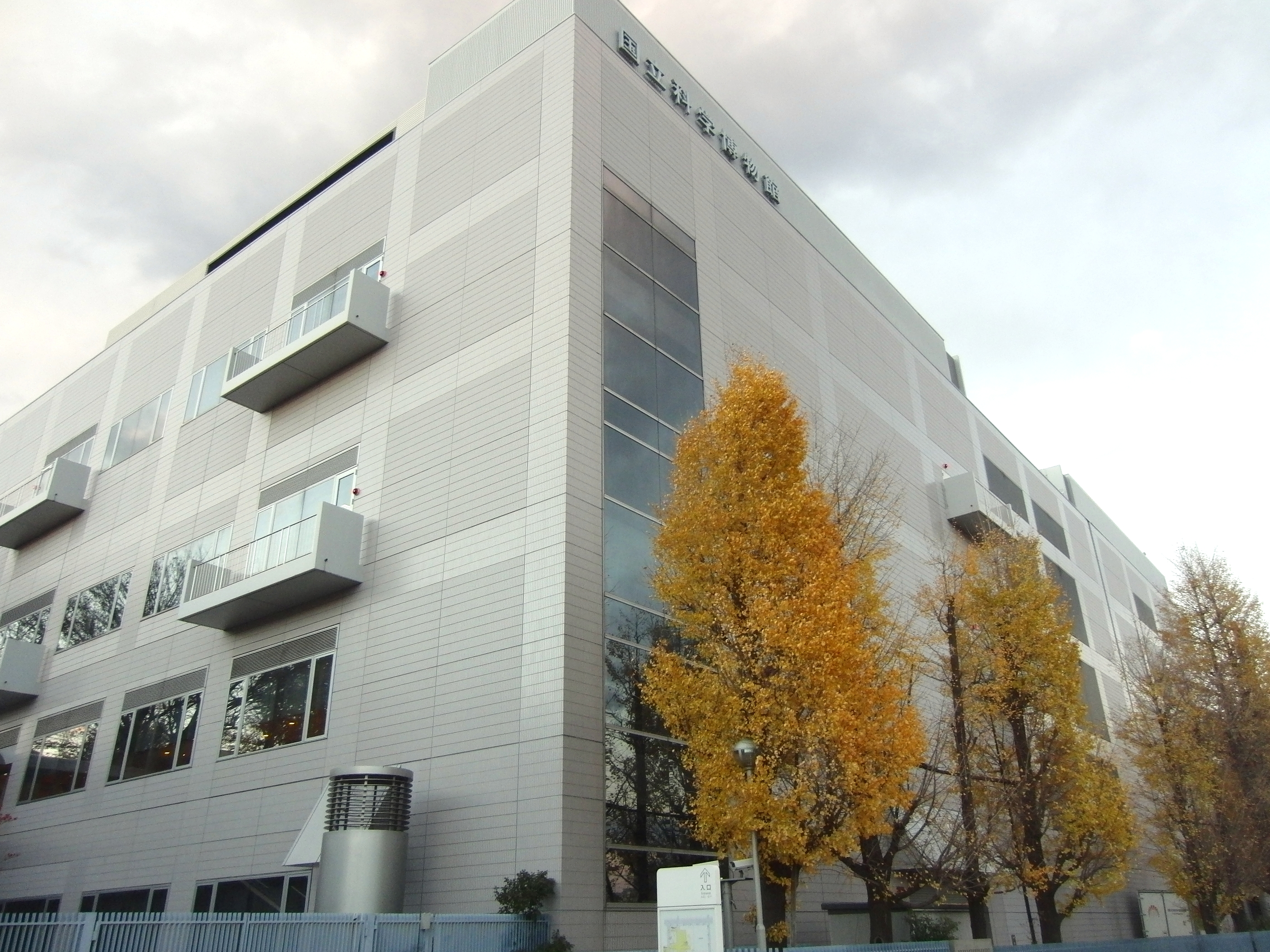 Global Gallery "Chikyūkan" of the National Museum of Nature and Science, Tokyo, Japan.